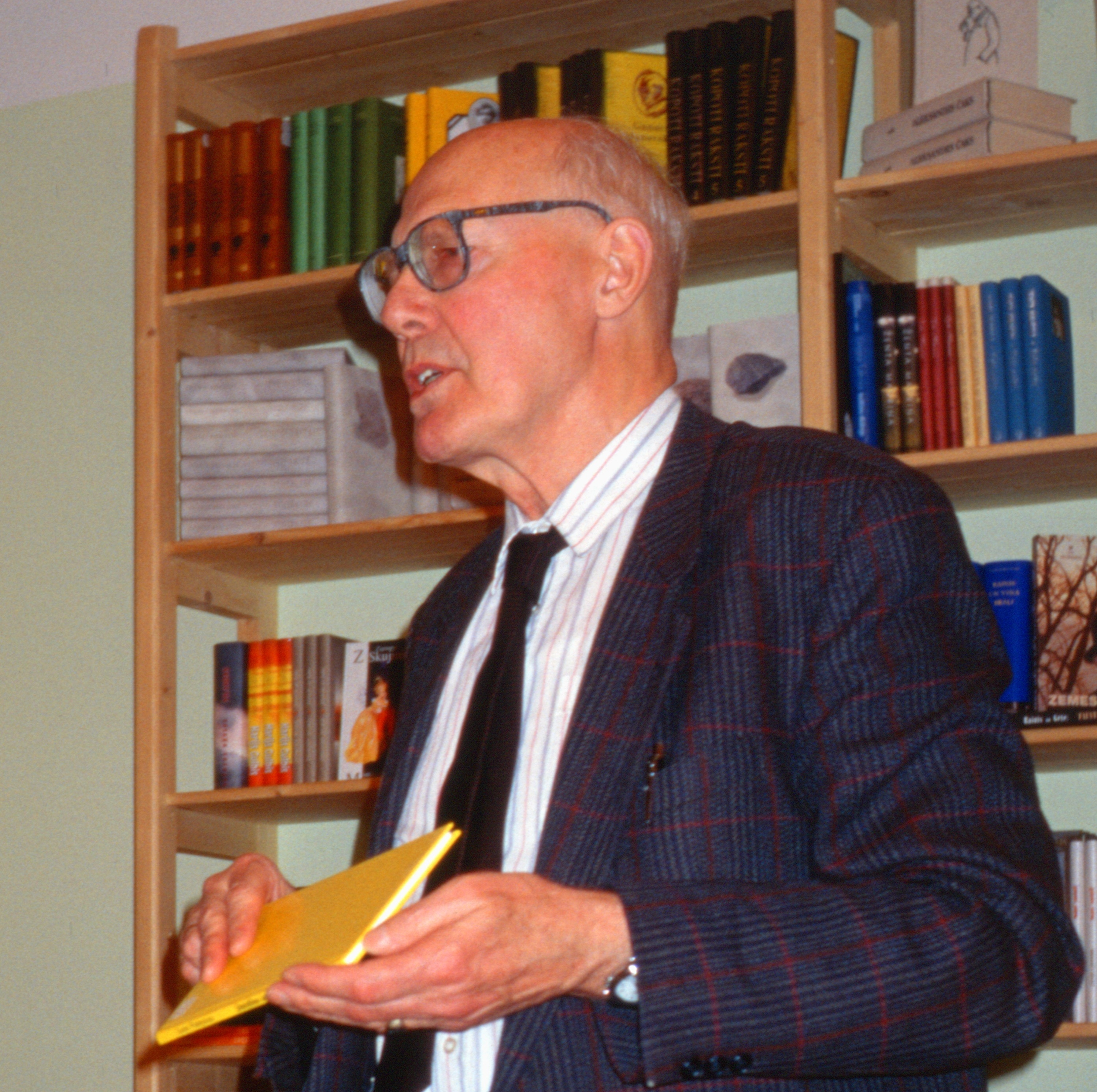 Editor Harro von Hirschheydt reports about literature for a latvian audience in Limbaži 1999